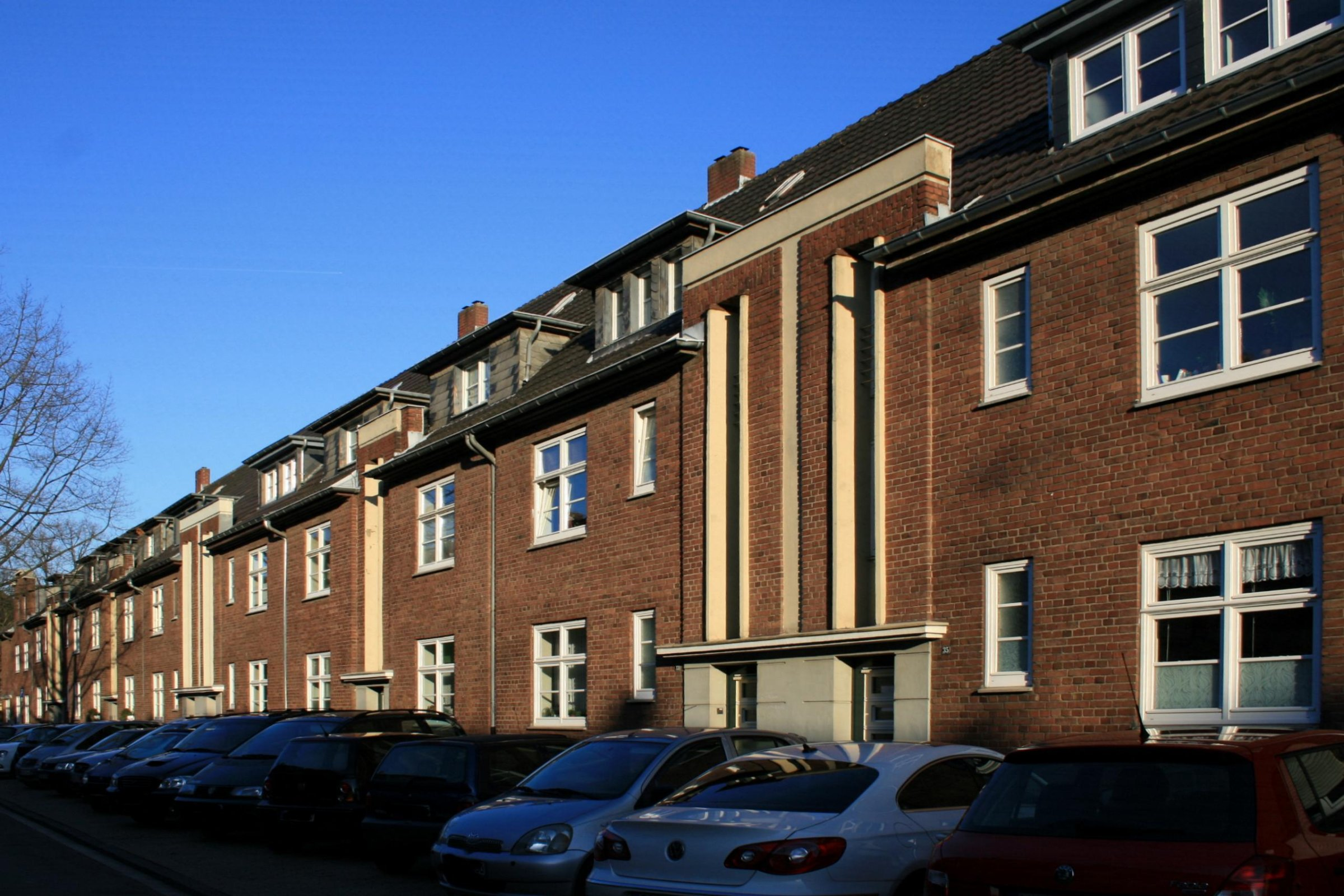 This is a photograph of an architectural monument.